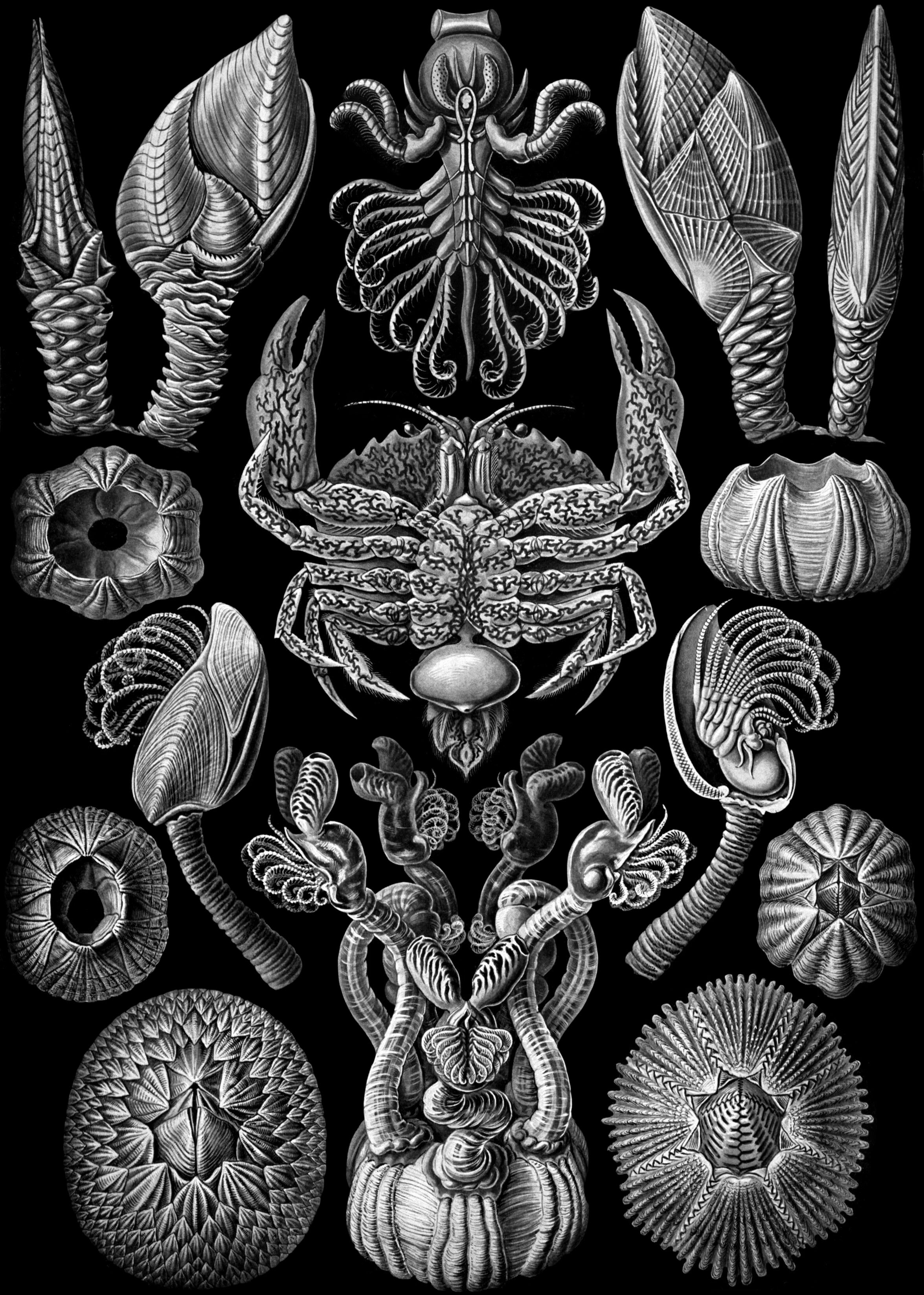 See here for index to numbers. Lepas anatifera (Linné) = Lepas anatifera Linnaeus, 1758, habitus of adult Lepas anatifera (Linné) = Lepas anatifera Linnaeus, 1758, adult with left half of shell removed Conchoderma auritum (Olfers) = Conchoderma auritum (Linnaeus, 1758), group of adults on Coronula diadema shell Pentalasmis vitrea (Leach) = Lepas fascicularis Ellis & Solander, 1786, adult without shell from below Scalpellum eximium (Hoek) = Arcoscalpellum michelottianum (Seguenza, 1876), adult from the side Scalpellum eximium (Hoek) = Arcoscalpellum michelottianum (Seguenza, 1876), adult from above Scalpellum vitreum (Hoek) = Arcoscalpellum vitreum (Hoek, 1883), adult from the side Scalpellum vitreum (Hoek) = Arcoscalpellum vitreum (Hoek, 1883), adult from above Coronula diadema (Lamarck) = Coronula diadema (Linnaeus, 1767), shell from above Coronula diadema (Lamarck) = Coronula diadema (Linnaeus, 1767), shell from the side Coronula reginae (Darwin) = Coronula reginae Darwin, 1854, shell from above Chthamalus antennatus (Darwin) = Chthamalus antennatus Darwin, 1854, adult from above Catophragmus polymerus (Darwin) = Catomerus polymerus (Darwin, 1854), adult from above Octomeris angulosa (Sowerby) = Octomeris angulosa Sowerby, 1825, adult from above Sacculina carcini (Thompson) = Sacculina carcini Thompson, 1836, adult female parasitizing Carcinus maenas, showing externa and indicating network of interna